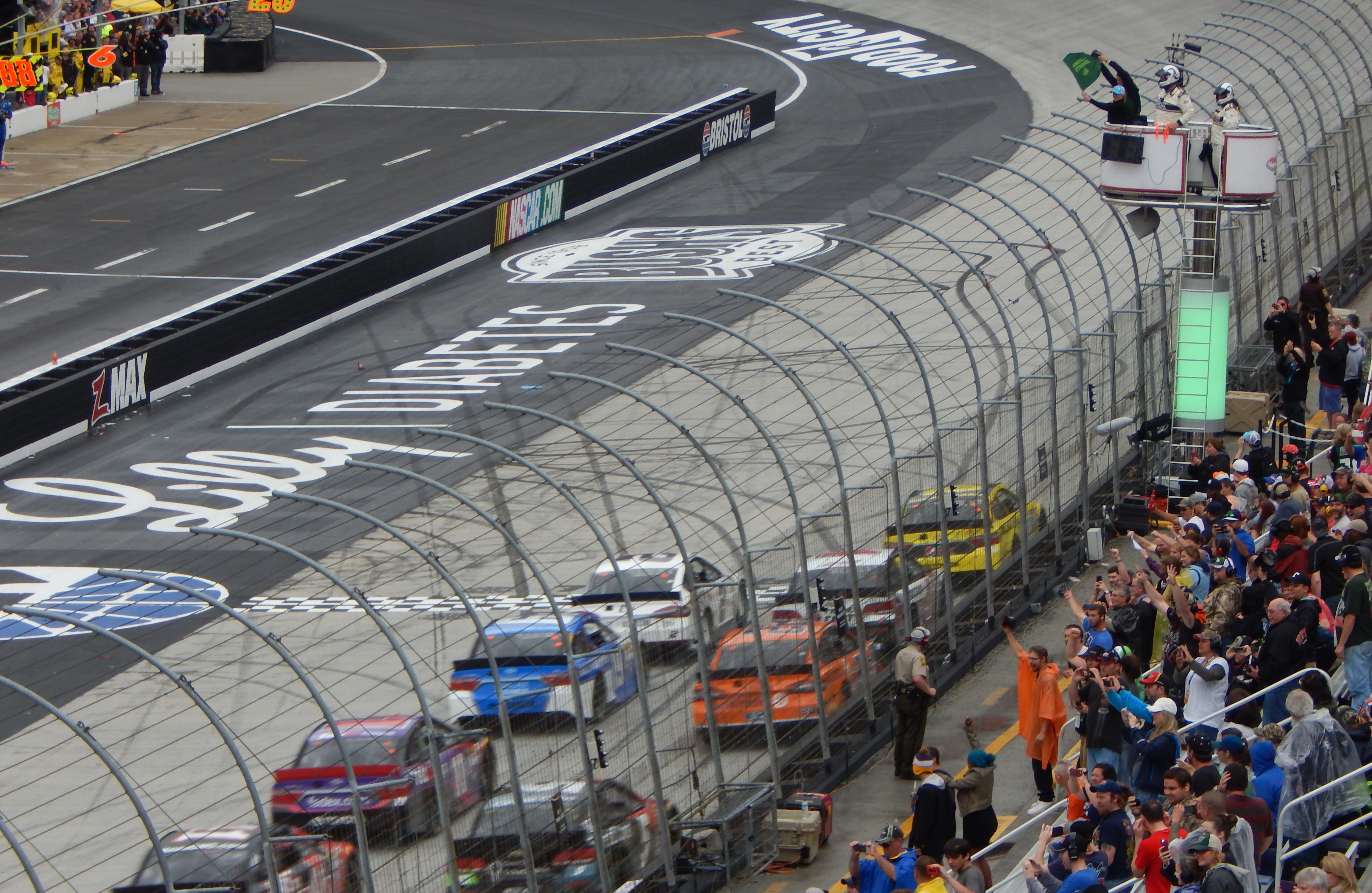 The green flag flies at Bristol Motor Speedway.